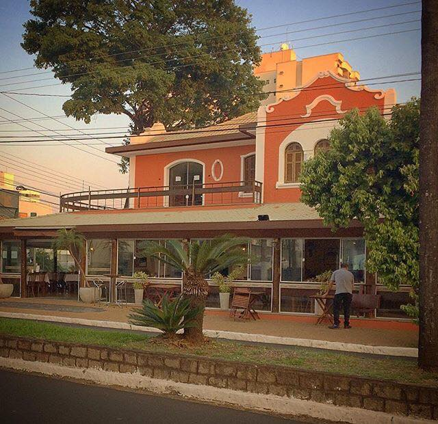 Sobrado em Estilo Missões em Marília